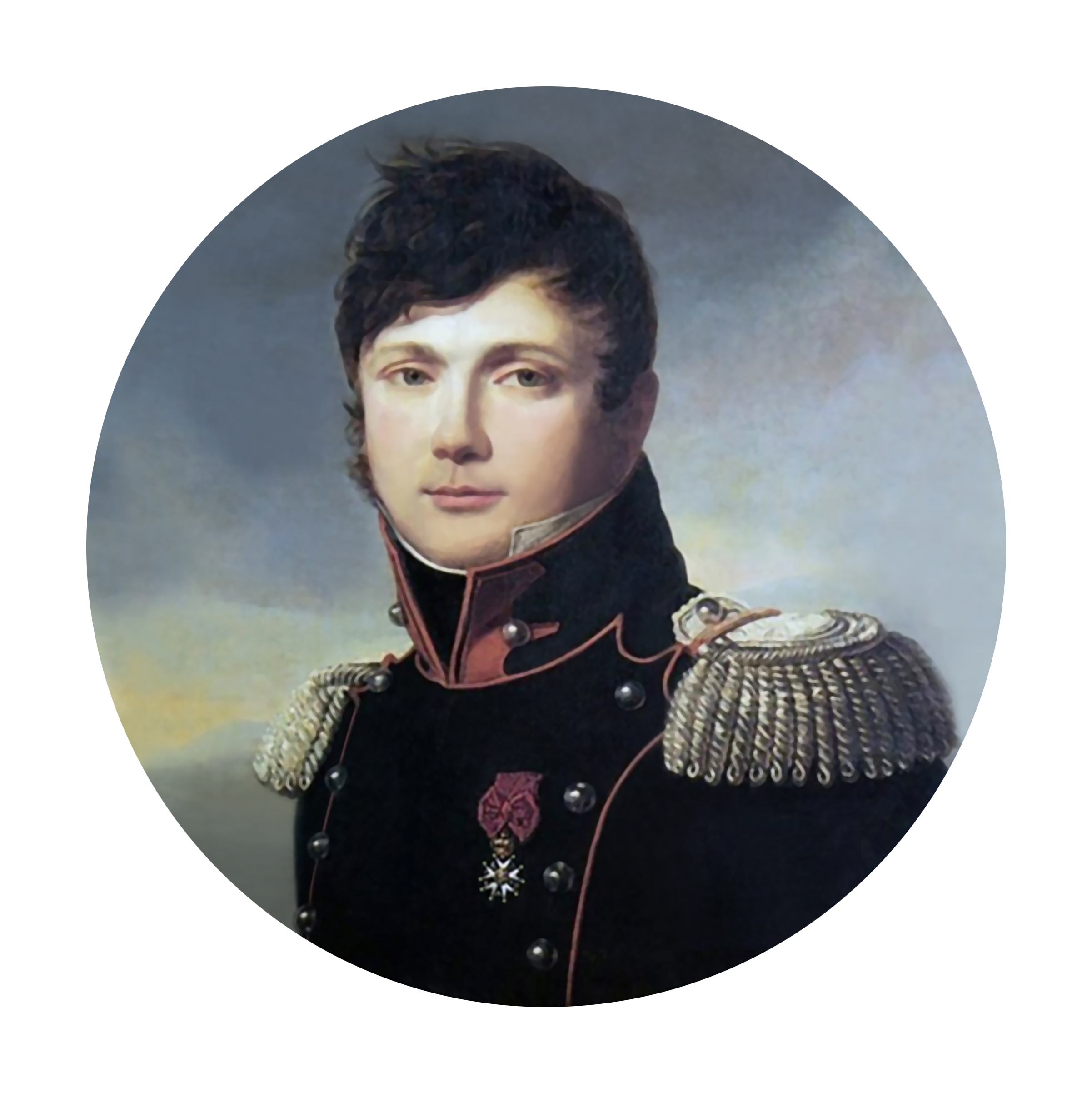 Portrait of General Marbot, jeune - croix de chevalier de la Légion d'honneur.